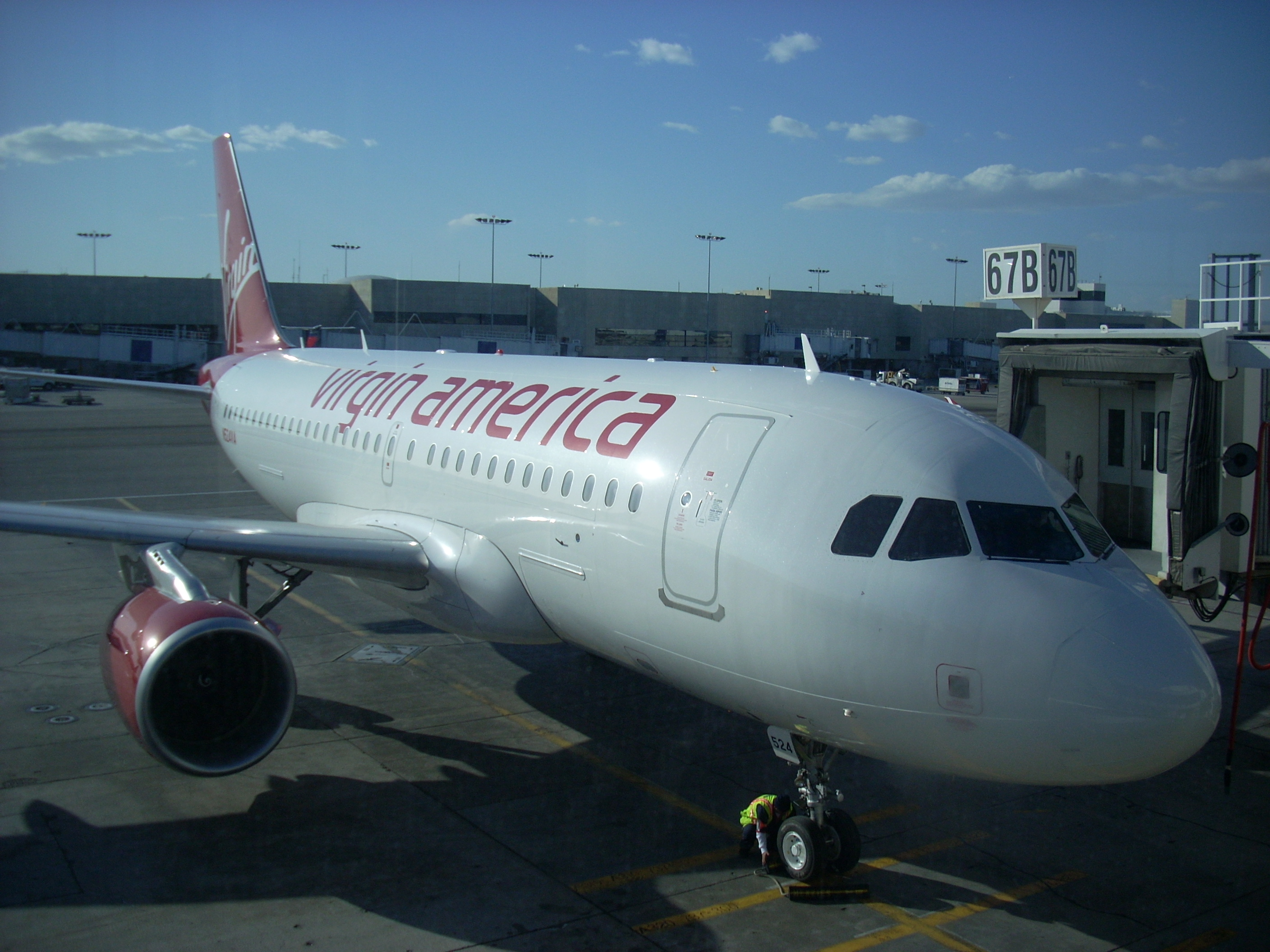 An Airbus A319 (N524VA) at LAX